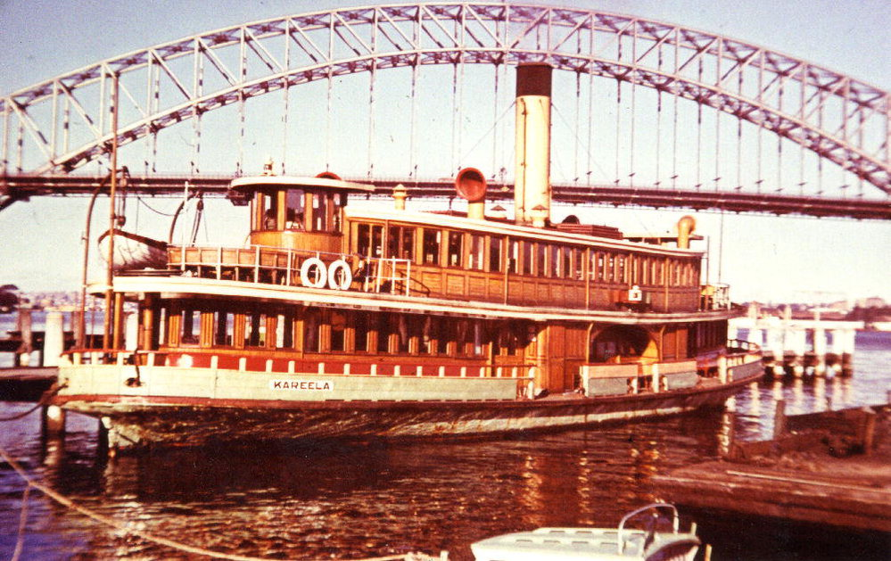 Sydney ferry KAREELA at Sydney Ferries base McMahons Point 1950